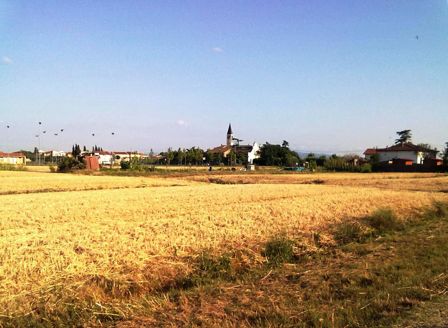 View of Gello - Pontedera (Pisa)